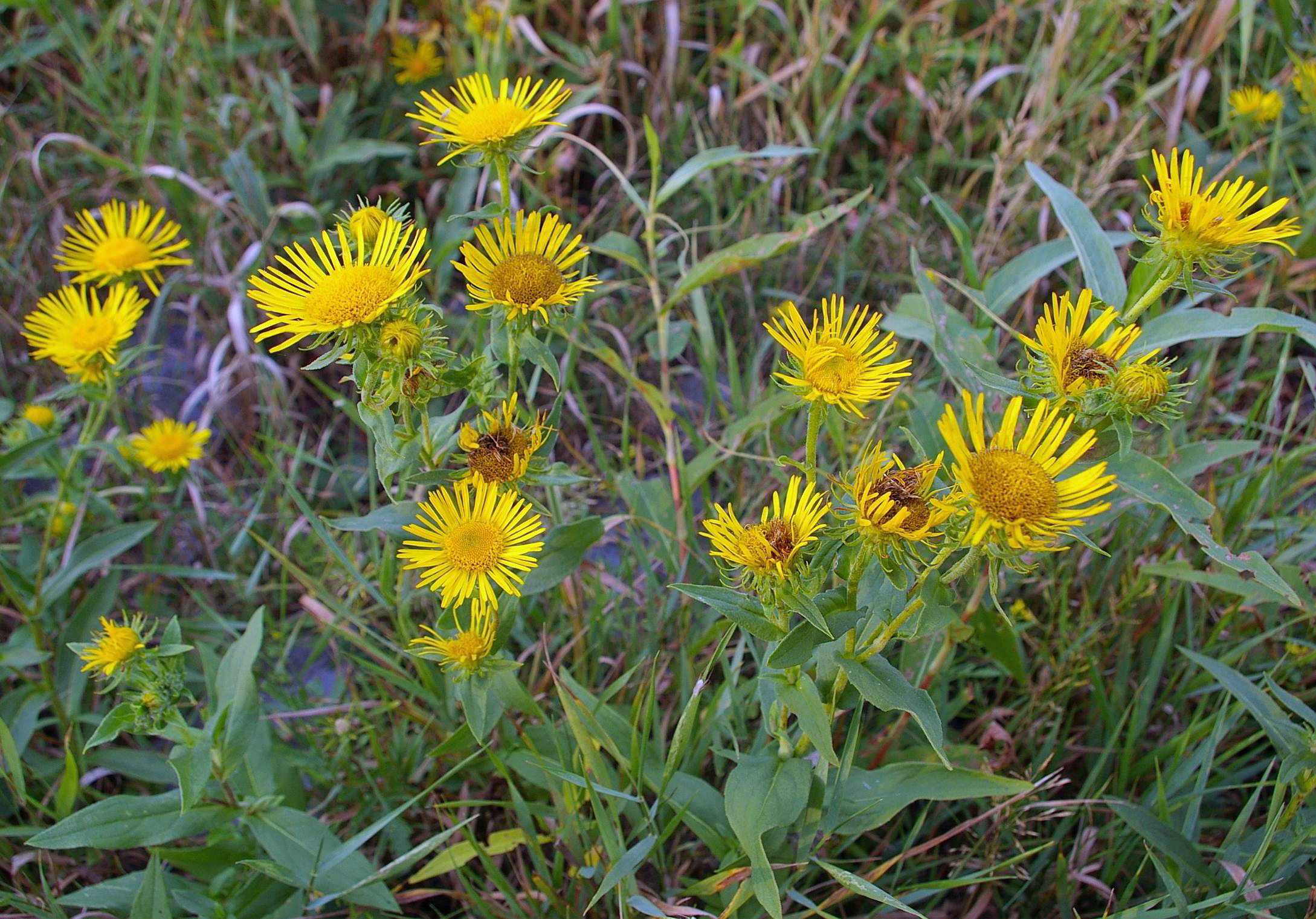 Flowering British Yellowhead, Inula britannica, at the banks of the Elbe River.